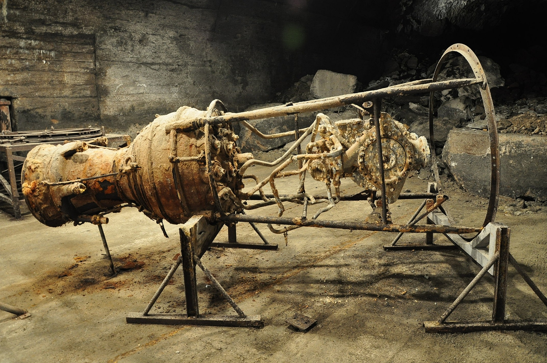 A rusty V2 rocket engine in the underground production facilities of the Nazi concentration camp Dora-Mittelbau (Nordhausen, Thuringia, Germany). V1's and V2's were produced here from january 1944 by camp inmates in enormous tunnel systems with a total length of some 20 km.